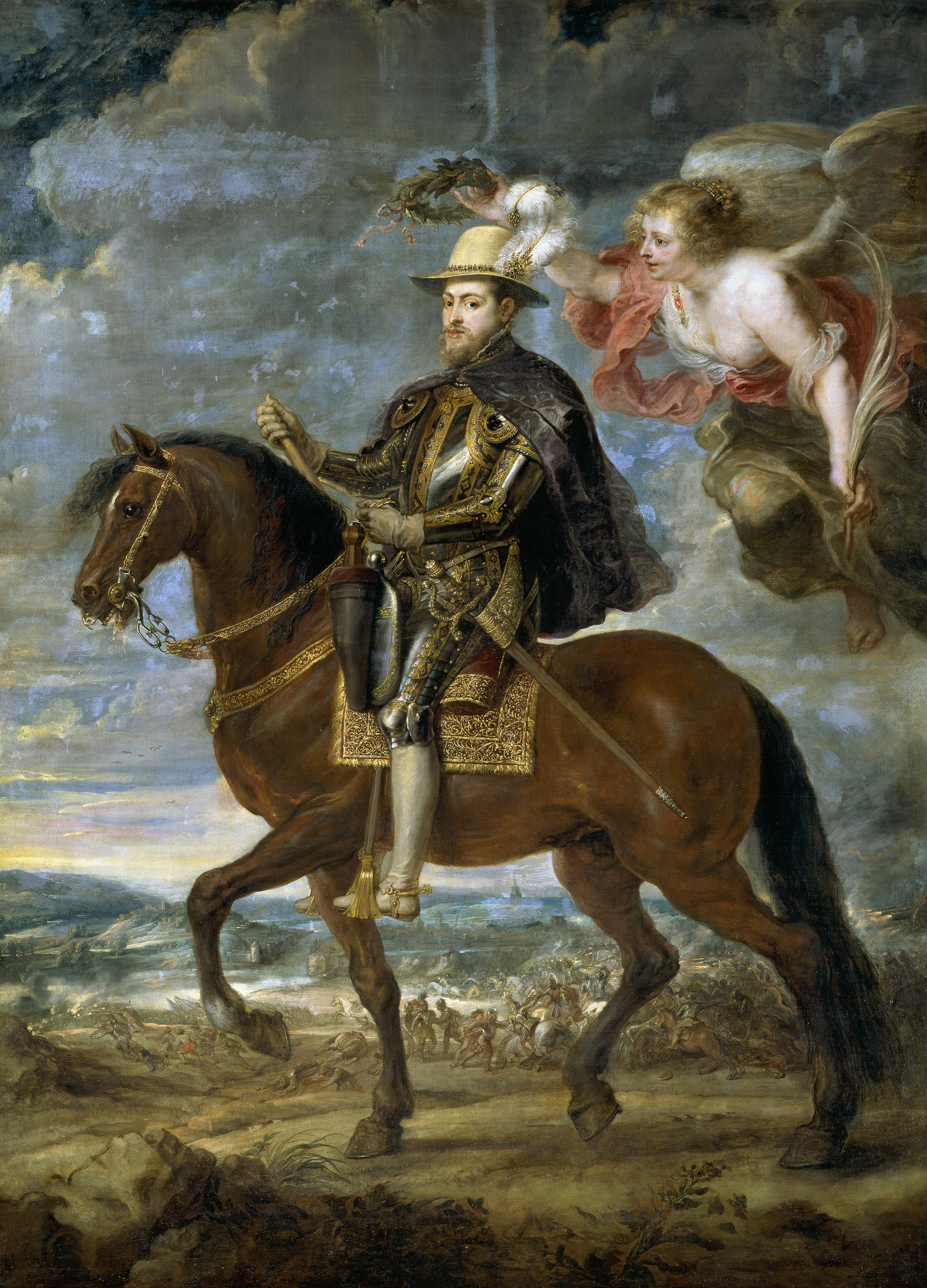 Portrait of Philip II of Spain (1527-1598)